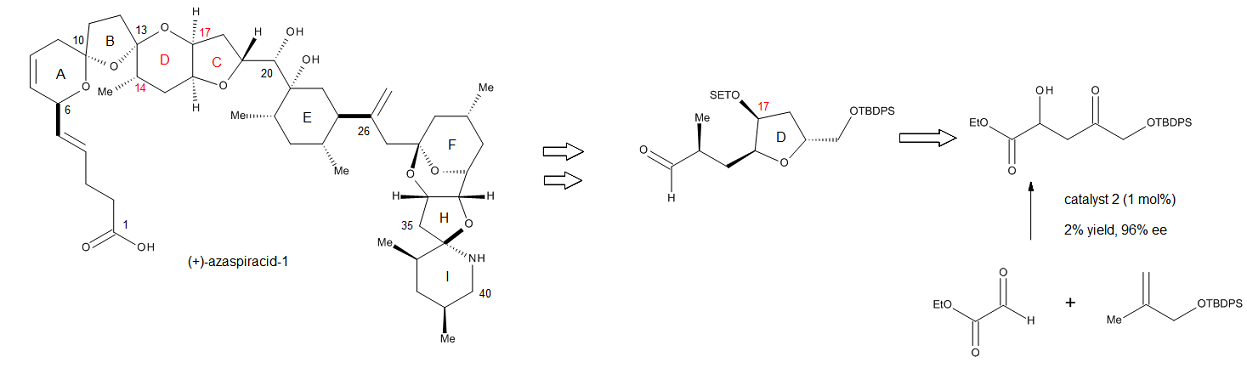 fig 19